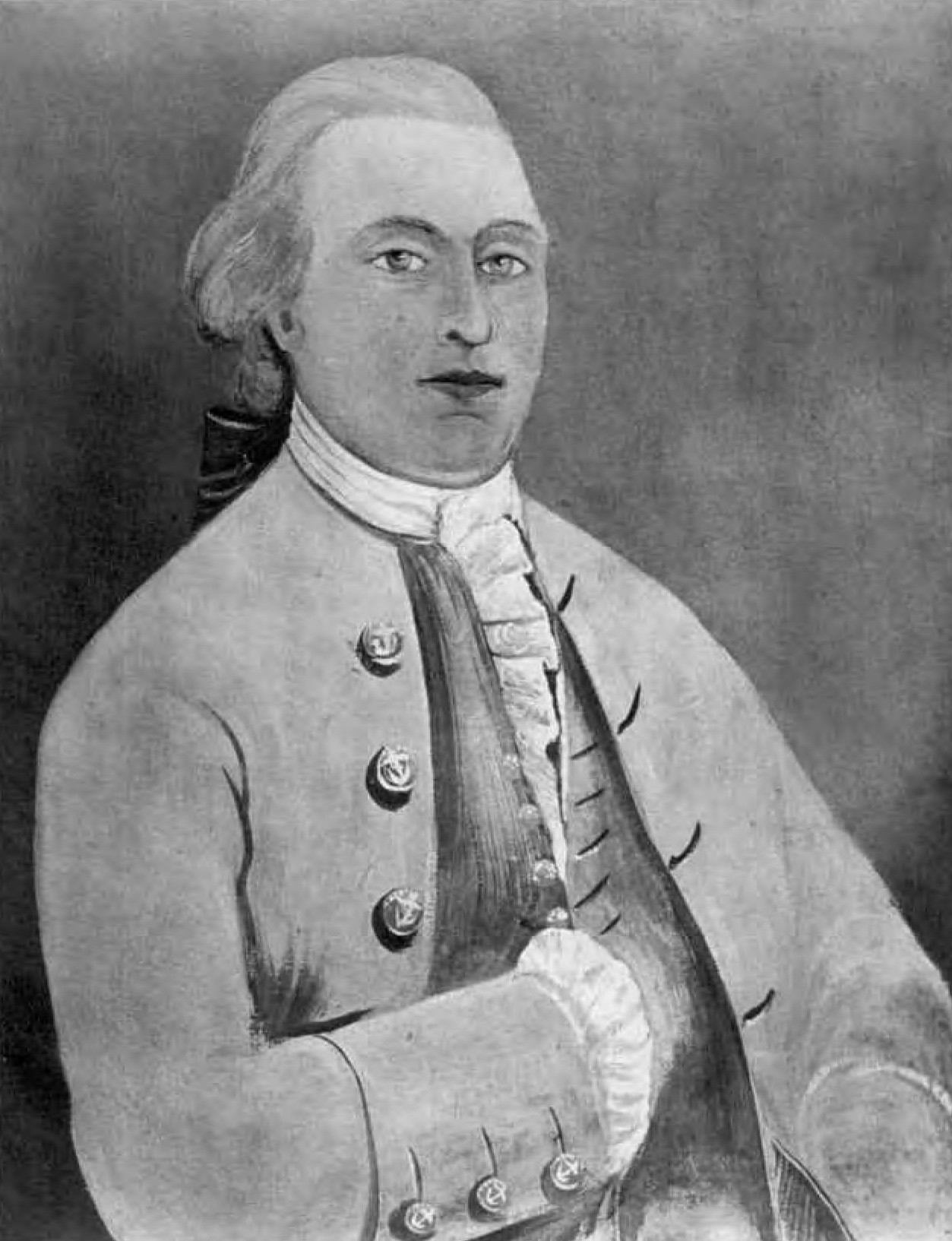 Engraving produced for The Colonial Society of Massachusetts from a portrait of Hugh Hill.